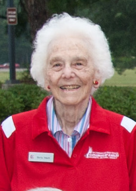 Thirteen members of the 2012 Gathering of Eagles pose together for a group photo in the English Garden of the Maxwell Club June 7, 2012. First row (Left-right): Brig. Gen. Robert L. Cardenas, Leon Frankel (Israeli Air Force), Col. Howard C. "Scrappy" Johnson, Lt. Col. James H. Harvey III, Lt. Col. Ed Saylor, and Col. James H. Kasler. Second Row (Left-right): Col. Leo Thorsness, Gloria W. Heath, CMSAF James M. McCoy, Brig. Gen. Rhonda L. Cornum (USA), Col. Henry P. Fowler Jr., Tech Sgt. Robert Gutierrez Jr., Col. Gail S. Halvorsen (AAC). Not in attendance was Mirislaw Hermaszewski, Polish cosmonaut amd fighter pilot. (US Air Force photo by Melanie Rodgers Cox/Released) Unit: Defense Imagery Management Operations Center DVIDS Tags: Maxwell AFB; bldg 144; 2012 Gathering of Eagles